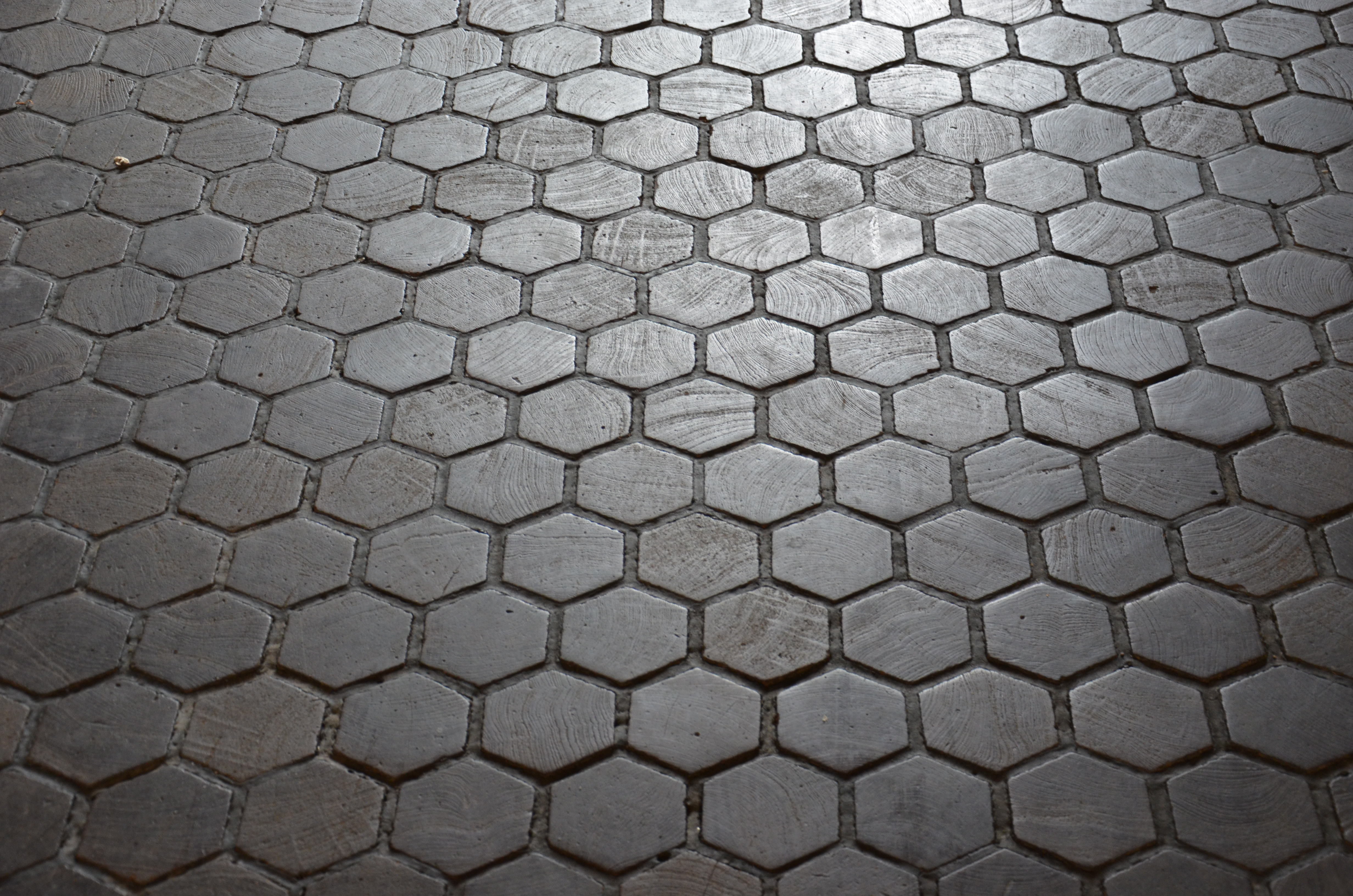 Wooden bricks, formed in honeycomb